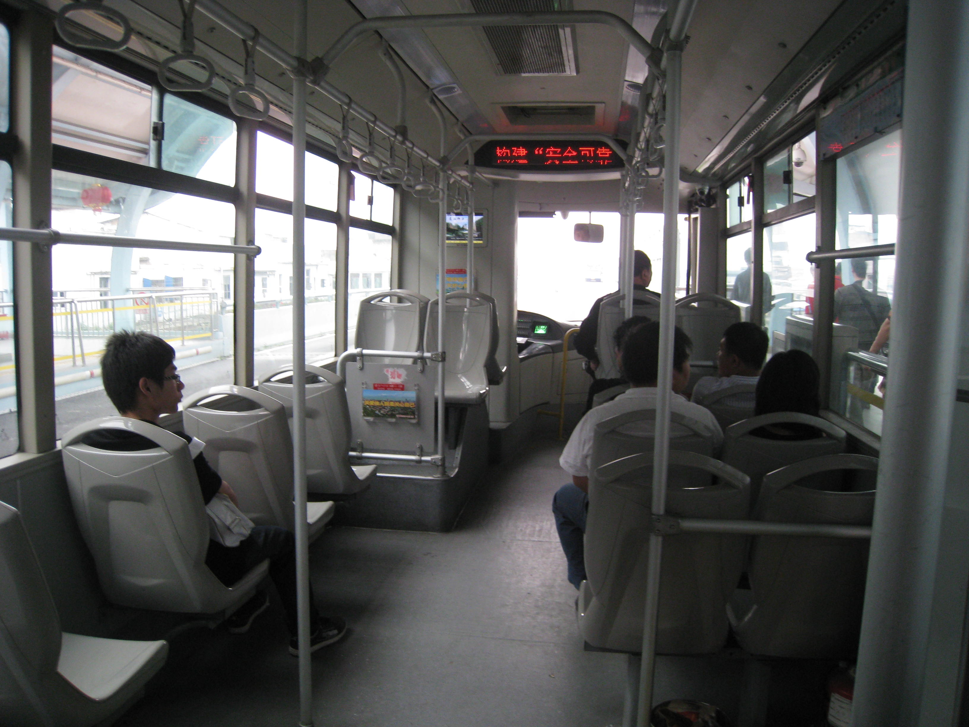 Inside the Xiamen BRT